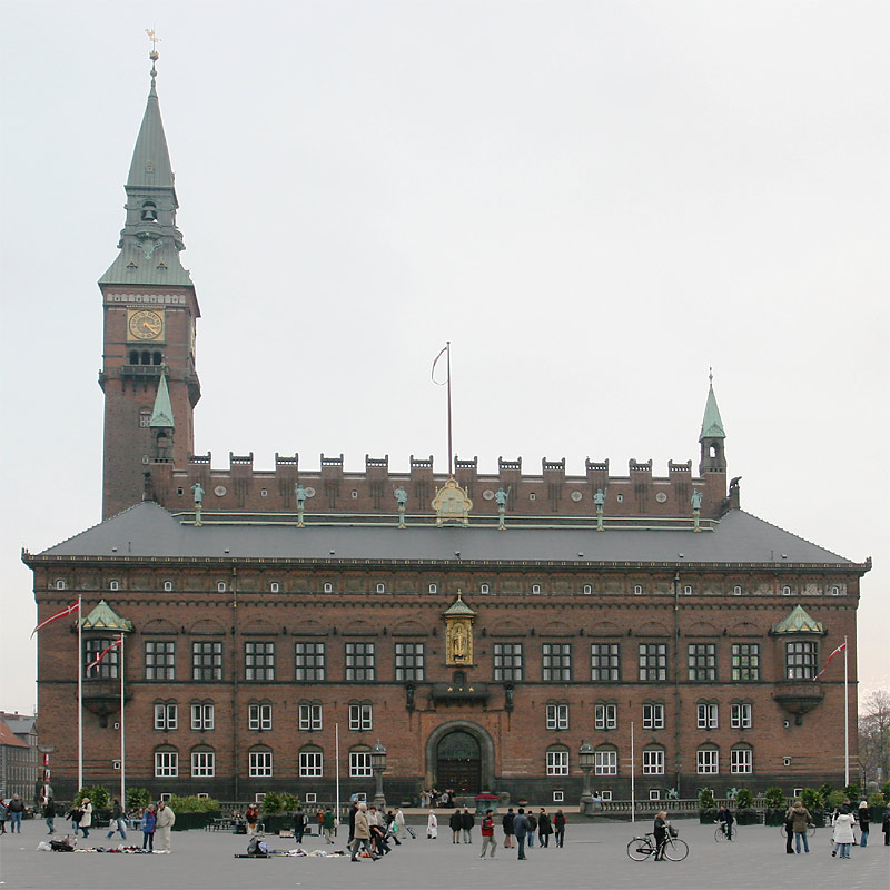 Copenhagen City Hall, seen from the front without crops og distortions. Taken by Henrik Jessen on November 11, 2005.